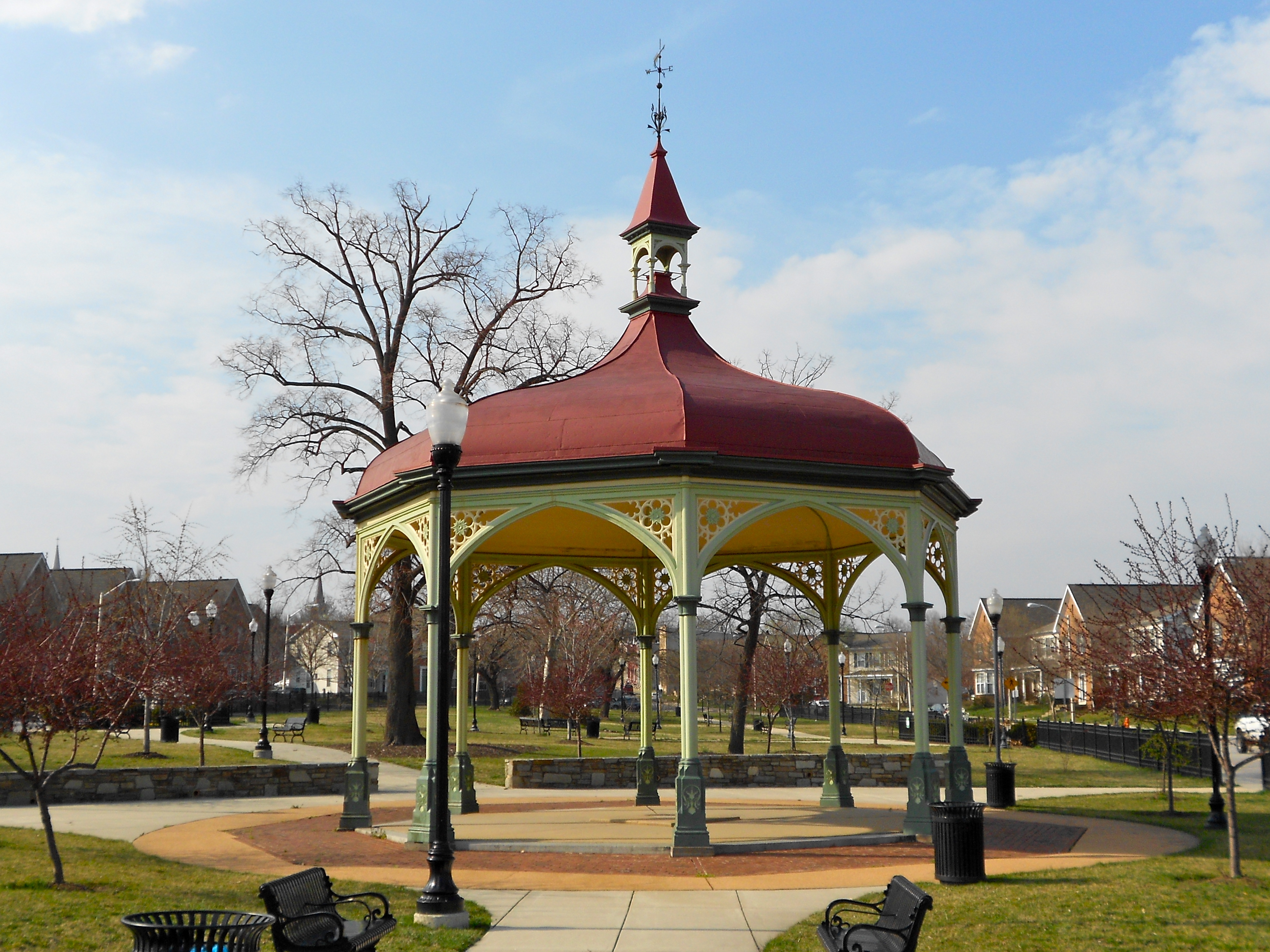 Perkins Square Gazebo on the NRHP since July 28, 1983. At George St. and Myrtle Ave. in central Baltimore, Maryland.